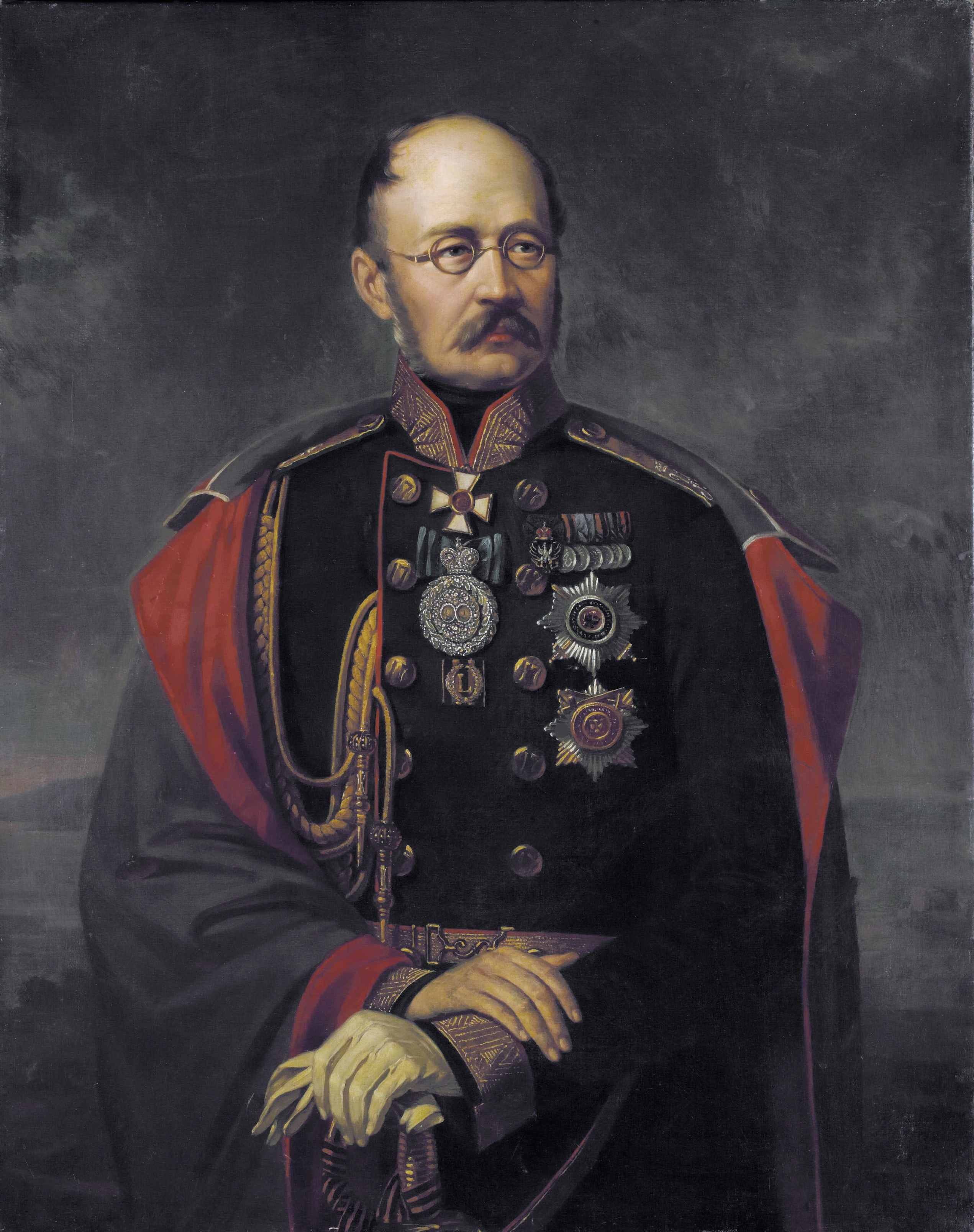 Mikhayl Gorchakov (1793-1861) oil on canvas 98 x 78.5 cm signed b.r.: Kaniewski / 1860